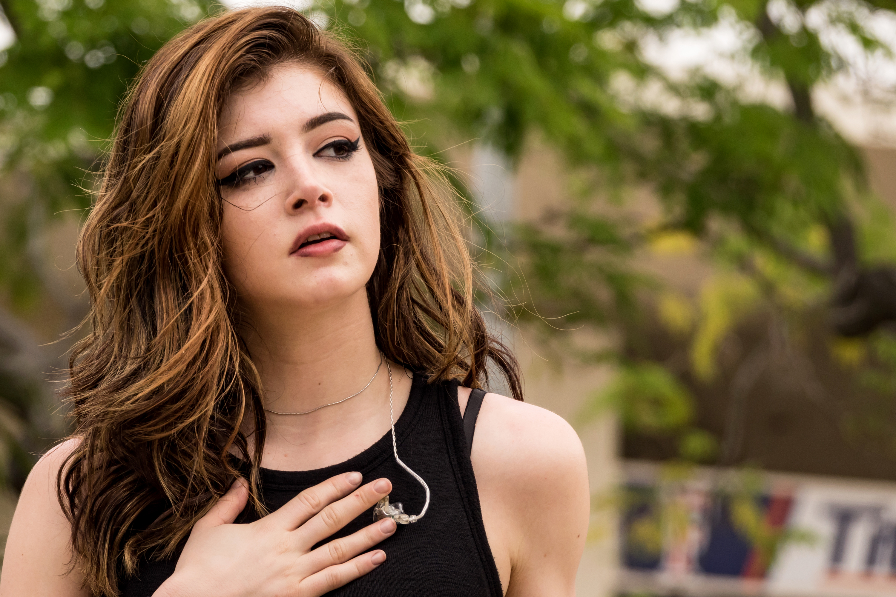 Against The Current performing live at Becker Amphitheater at California State University (CSU) Fullerton, in Fullerton, Orange County, California, on Monday, April 24, 2017.